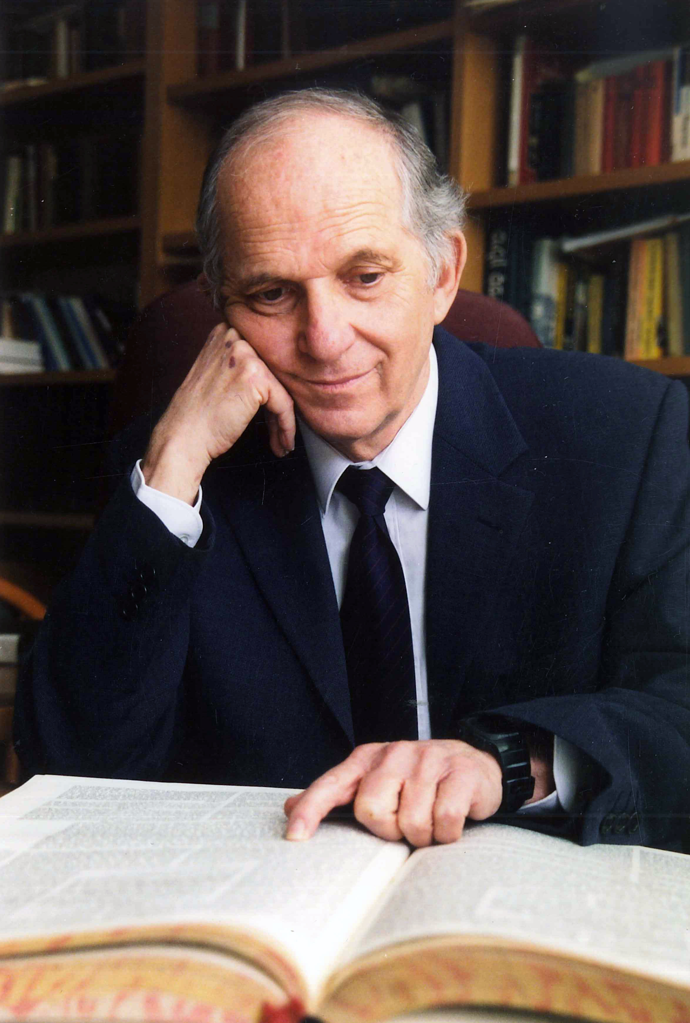 Rabbi Moshe Zemer Z"L in his home library